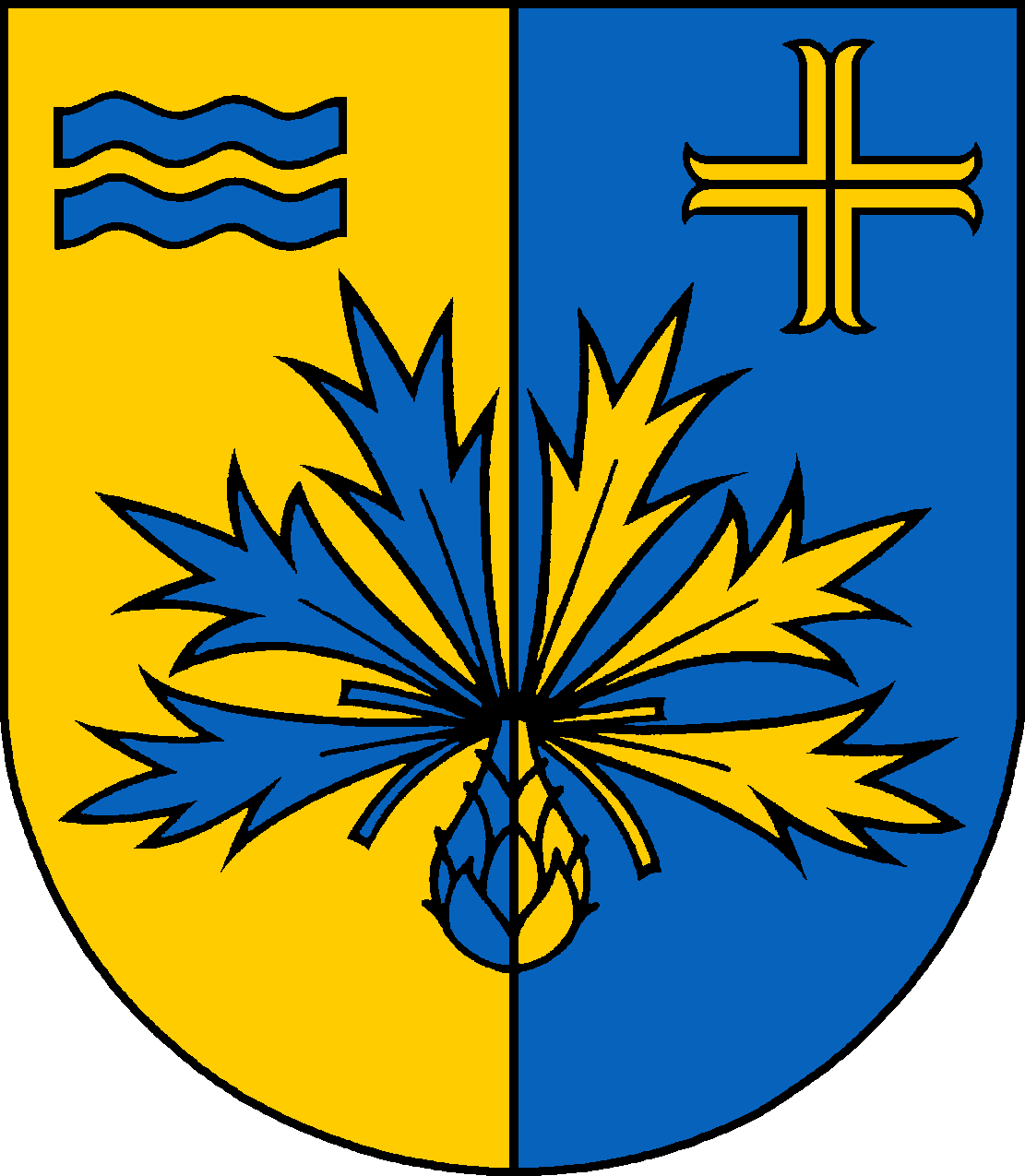 Coat of arms of the municipality Riepsdorf in Schleswig-Holstein, Germany.